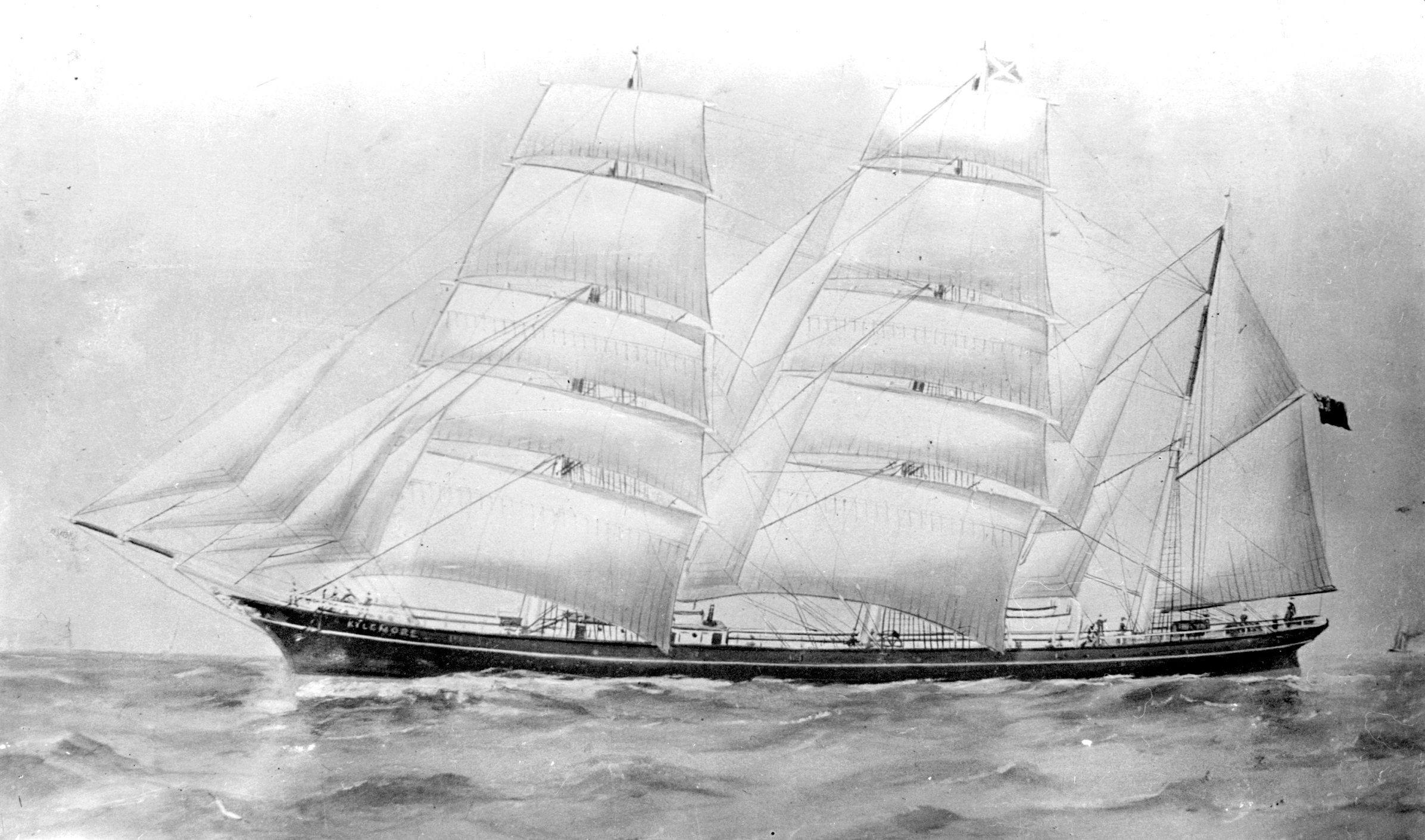 KYLEMORE, Liverpool. 1198 tons. Built at Pt. Glasgow. 1880., Three masted barque; scrapped 1937; ex Suzanne. Photograph of a painting.